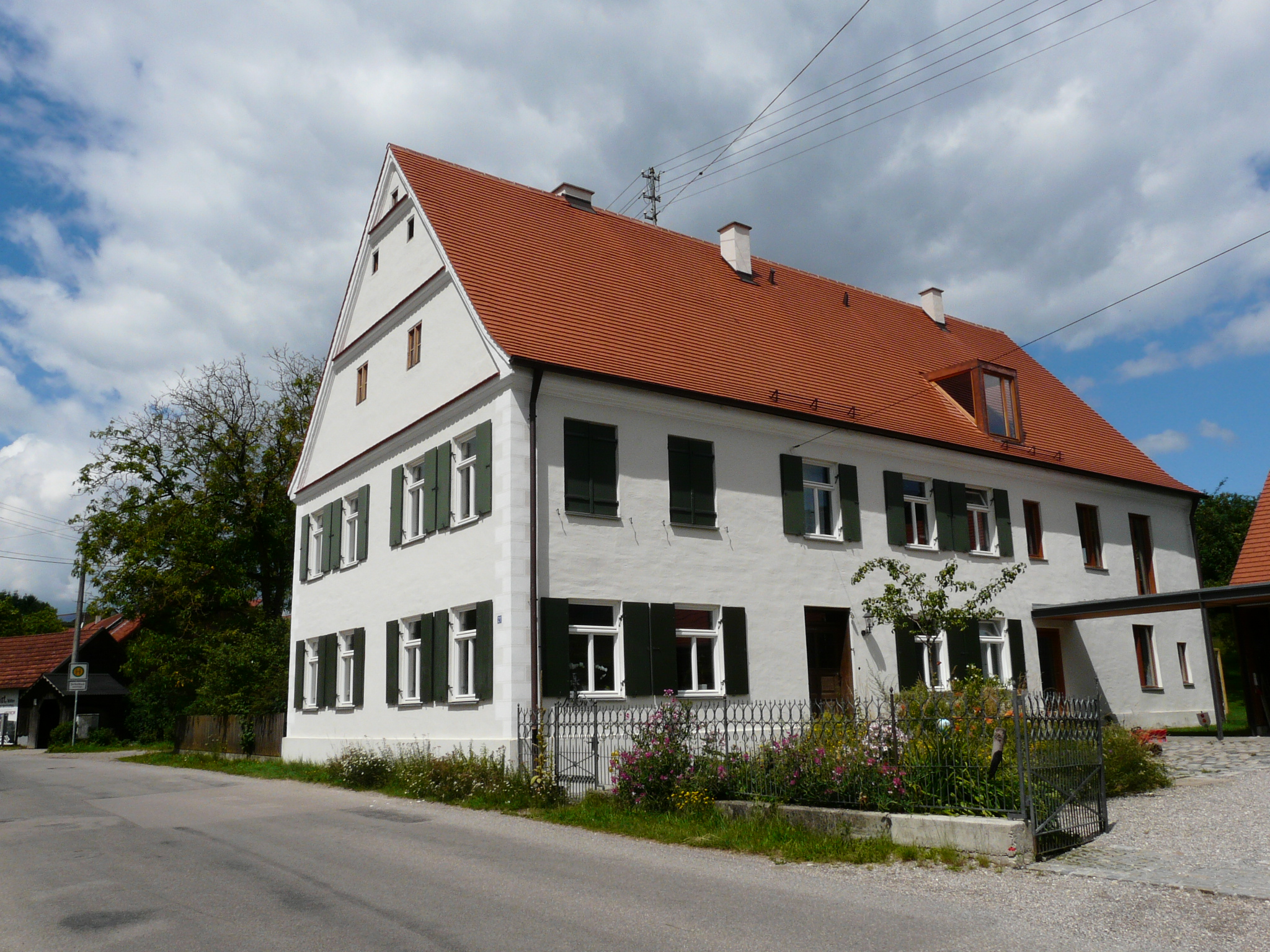 Angerstr. 21 in Grimoldsried, Mickhausen